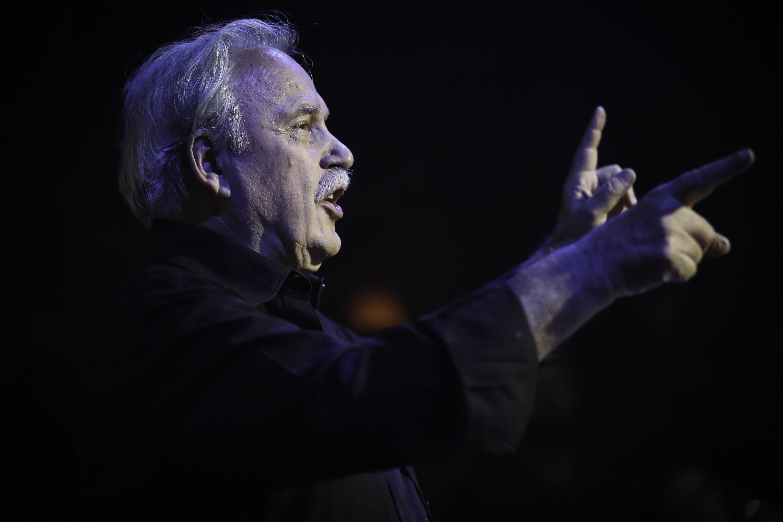 Giorgio Moroder - First Avenue Minneapolis - The Current